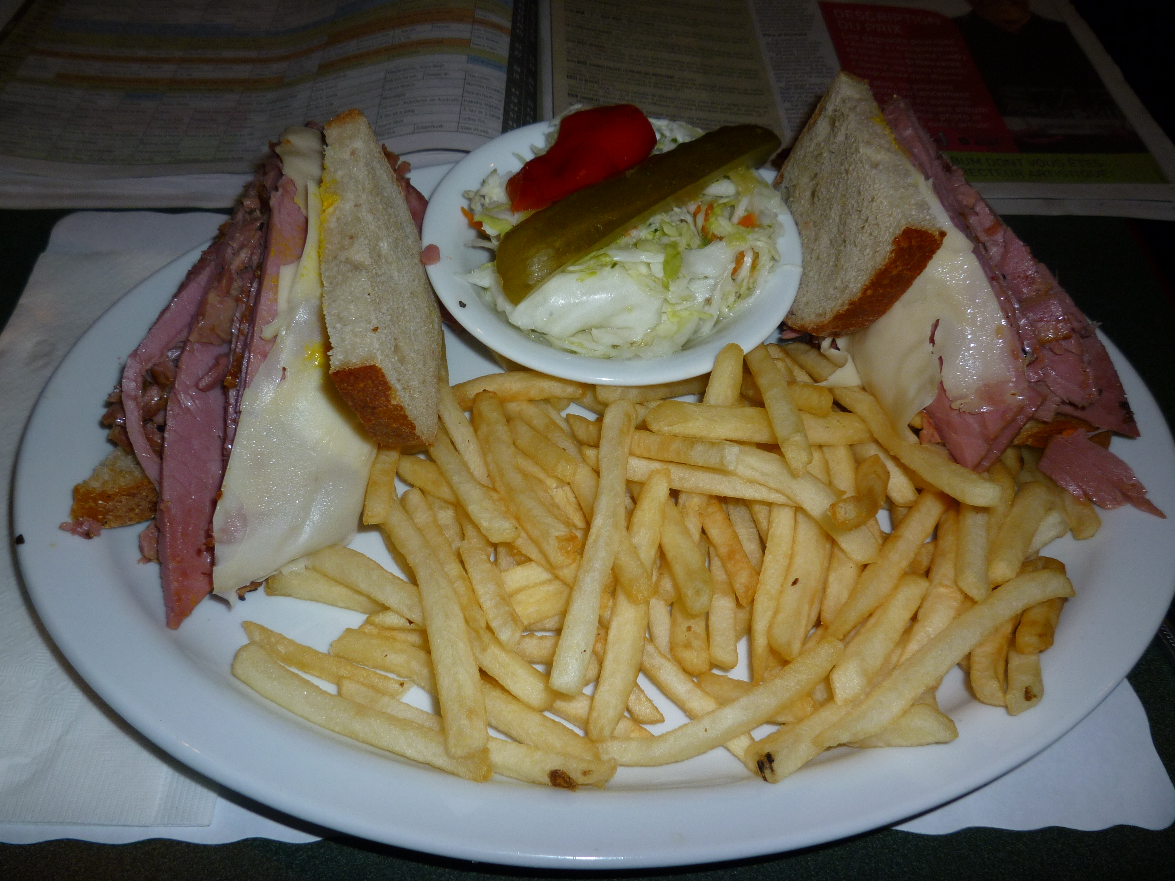 Montreal Style Smoked meat Sandwich on rye bread with swiss cheese and cole slaw and french fries.